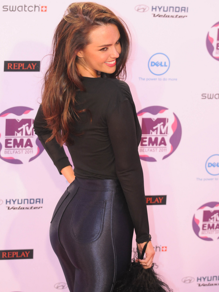 British actress Jennfier Metcalfe at the 2011 MTV Europe Music Awards.